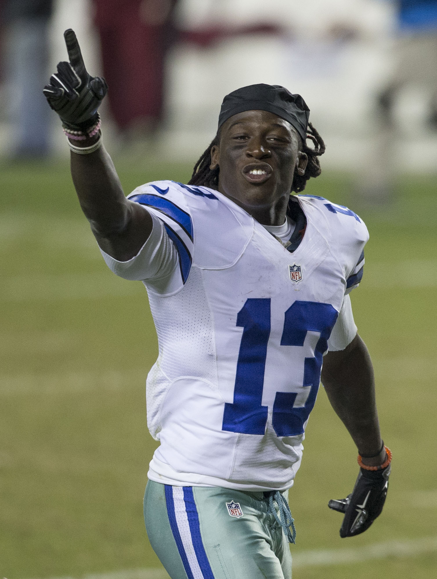 Cowboys at Redskins 12/7/15